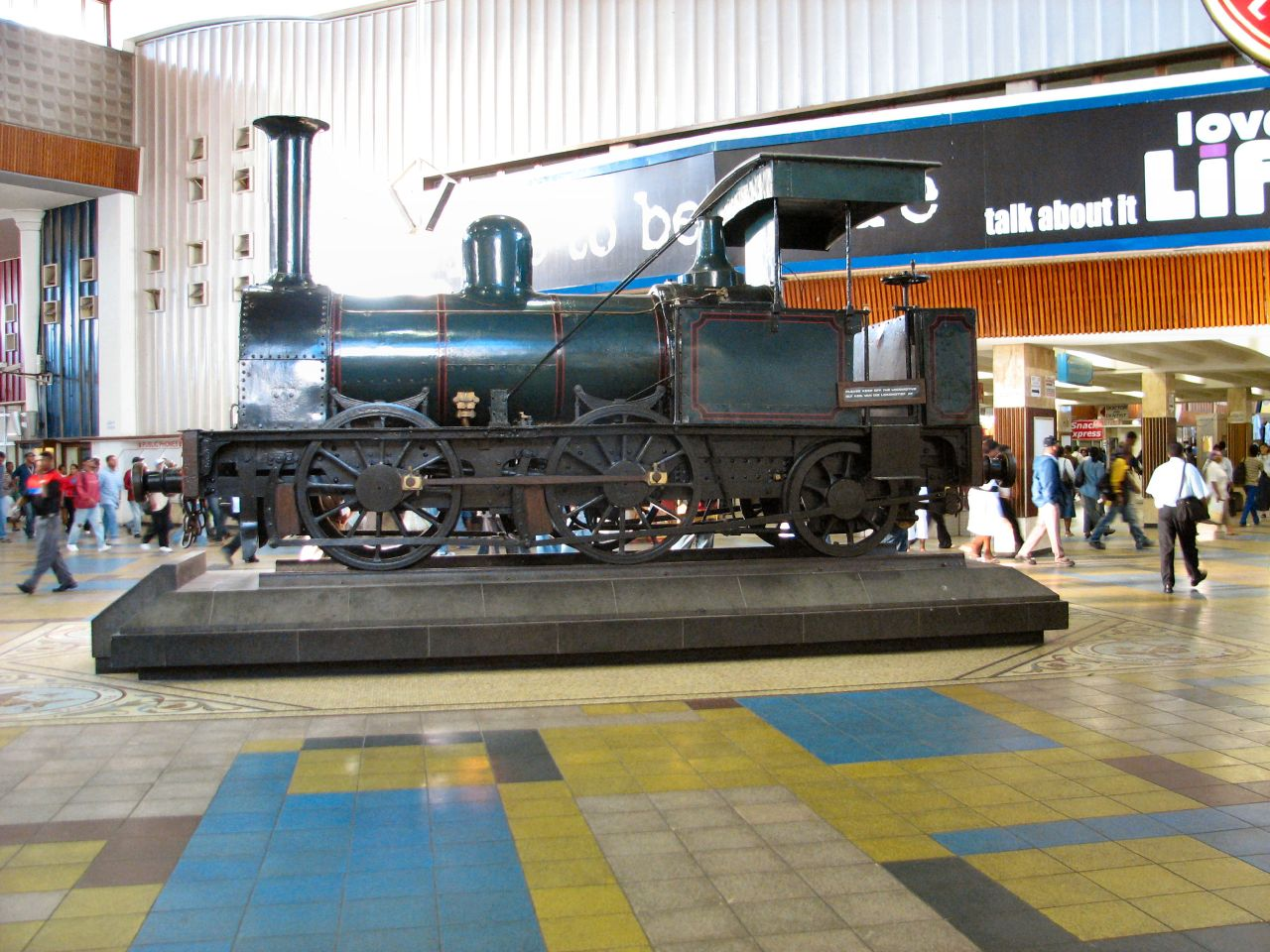 This is a Hawthorn Leslie product of 1852